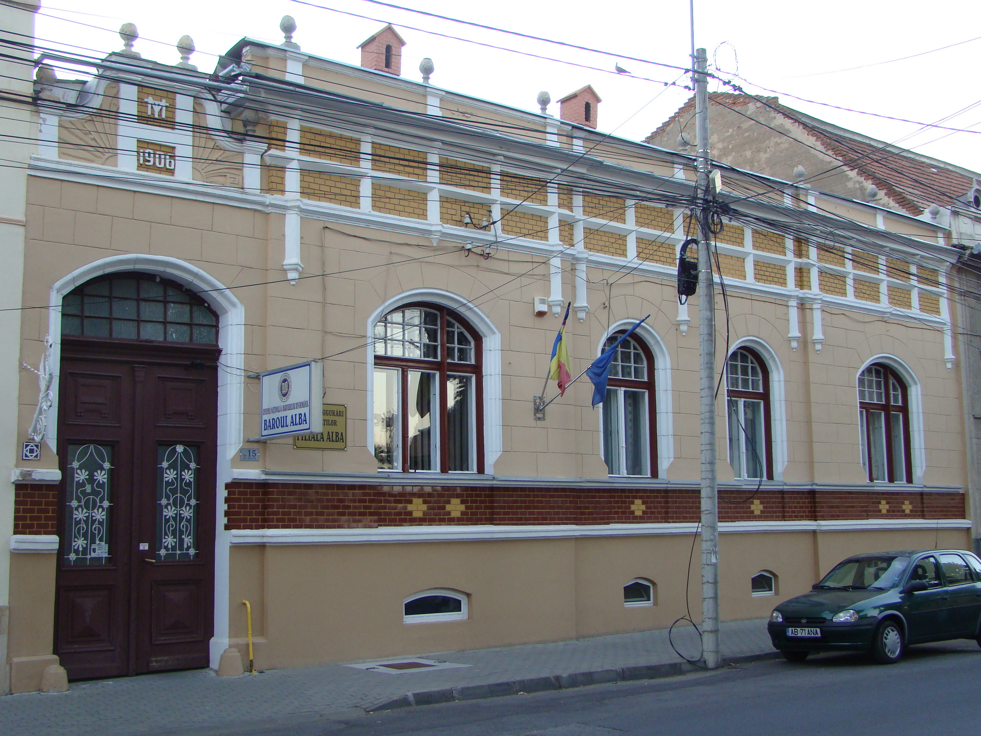 House, historic monument, Teilor street, number 15, Alba Iulia, Alba county, Romania